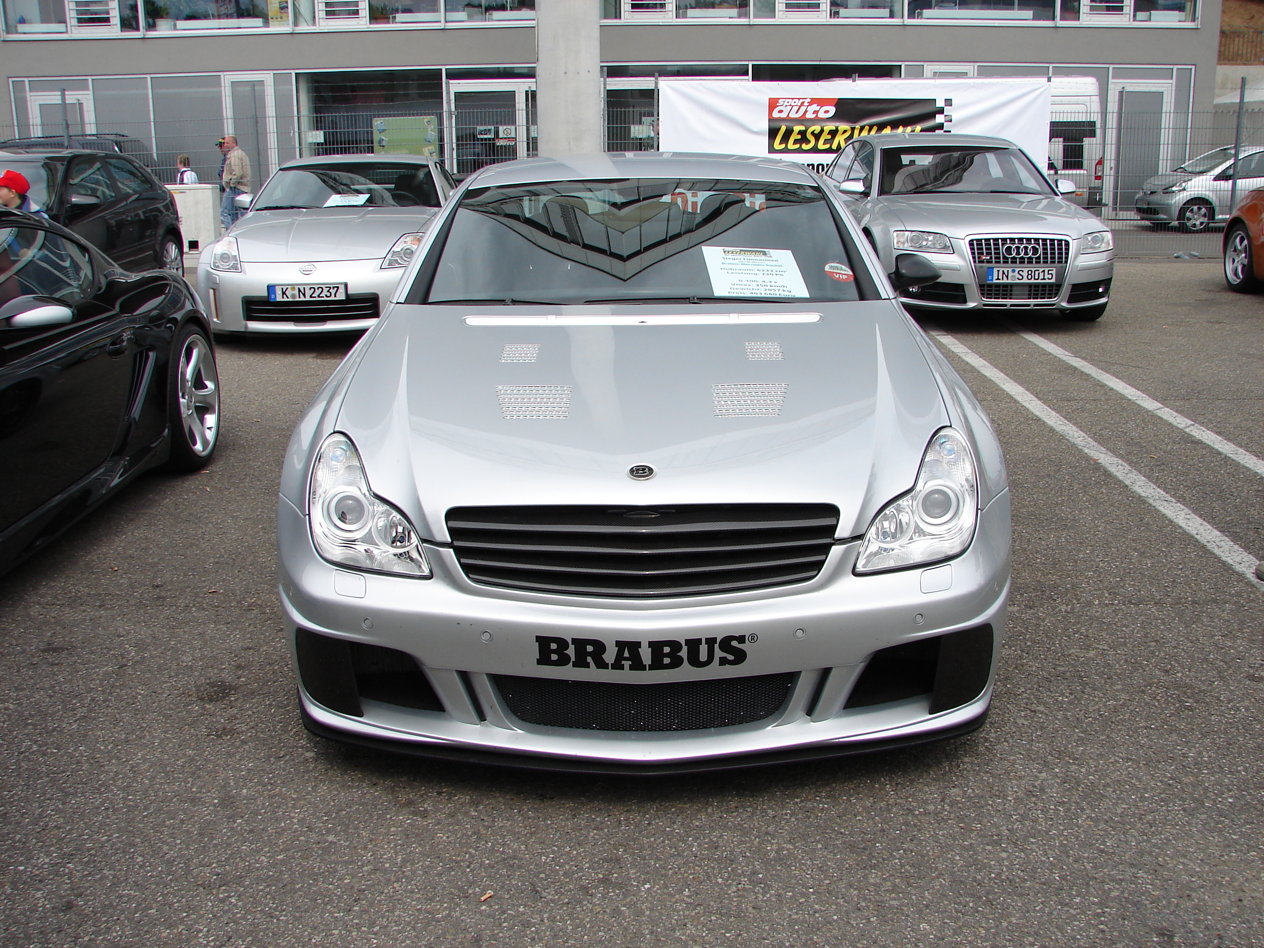 Brabus Rocket (the fastest sedan of the world) at the Tuner GP in Hockenheim, Germany. Note: this isn't a Mercedes CLS, because it is heavily modified by Brabus, so it's called Brabus CLS V12 S Rocket.